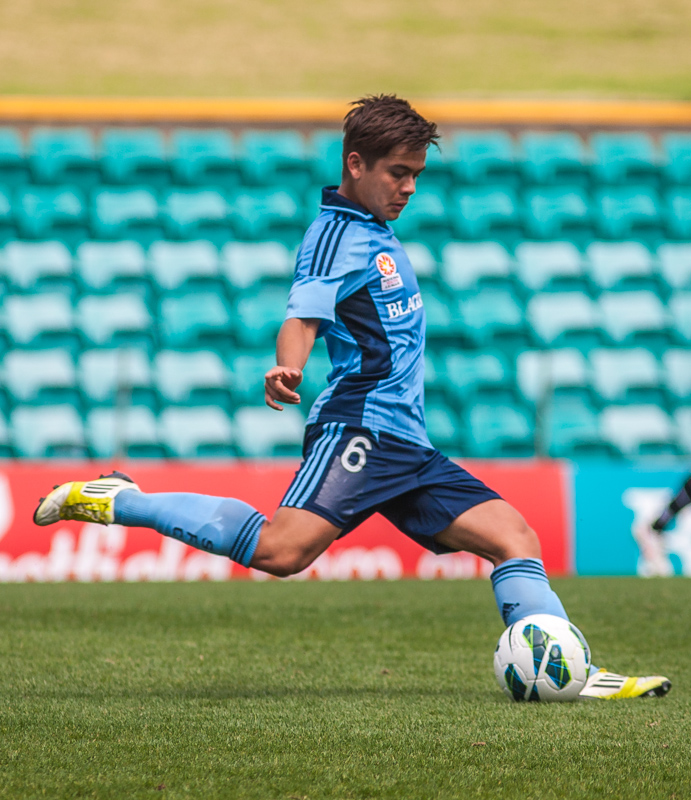 Hagi Gligor playing for the Sydney FC youth team against the Newcastle Jets youth team in 2012.